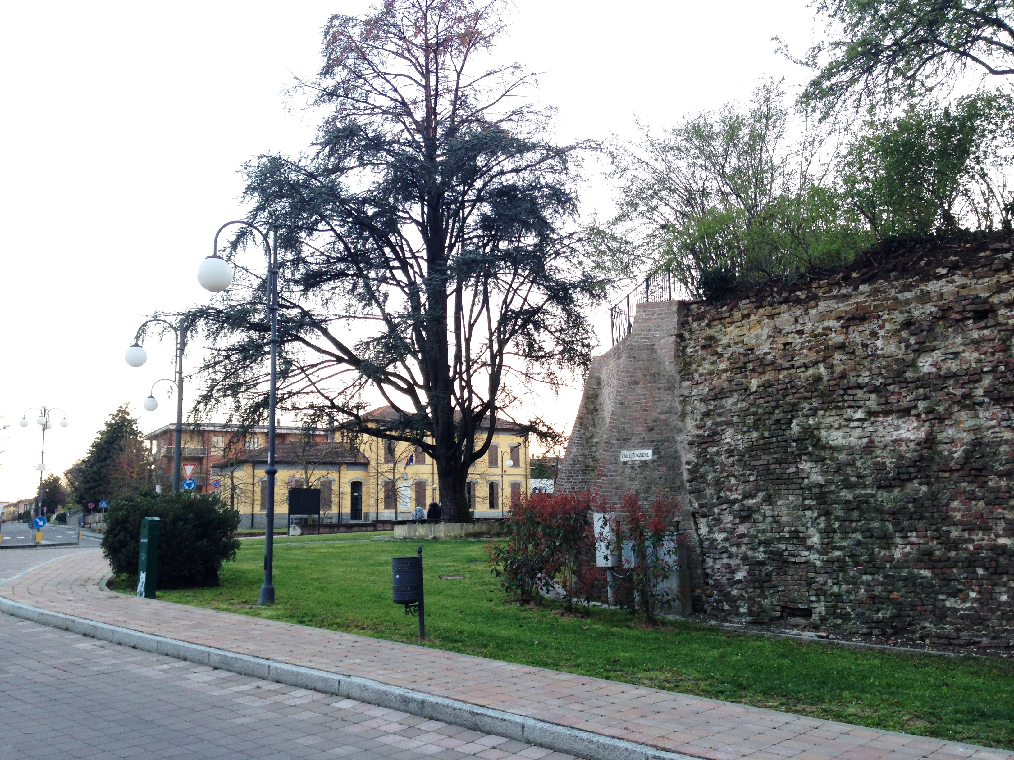 View of Rome Square taken from corner of Viale Stazione